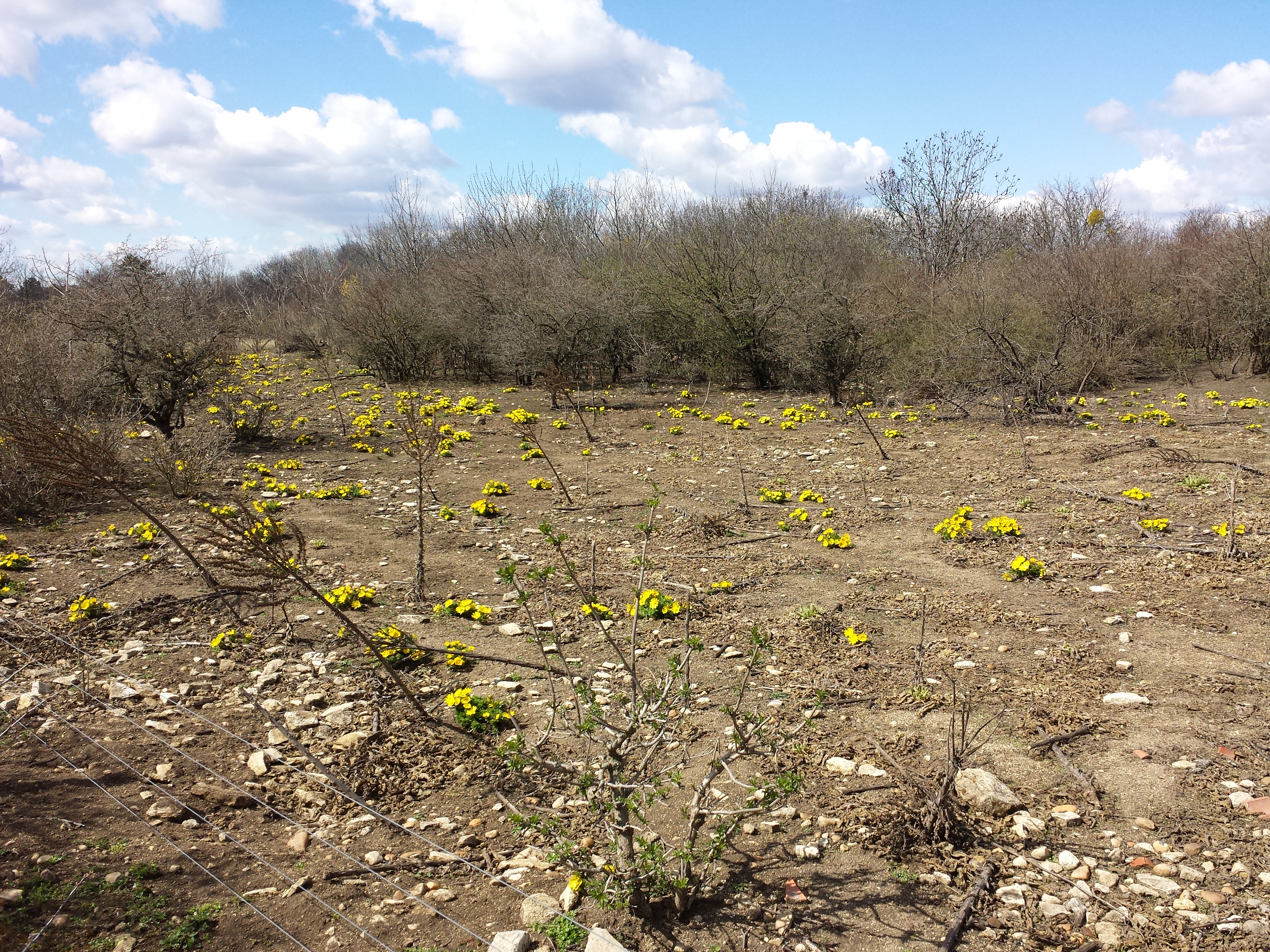 Habitat Taxonym: Adonis vernalis ss Fischer et al. EfÖLS 2008 ISBN 978-3-85474-187-9 Location: Neusiedler Mauth, district Neusiedl am See, Burgenland, Austria - ca. 160 m a.s.l. Habitat: range land for pigs